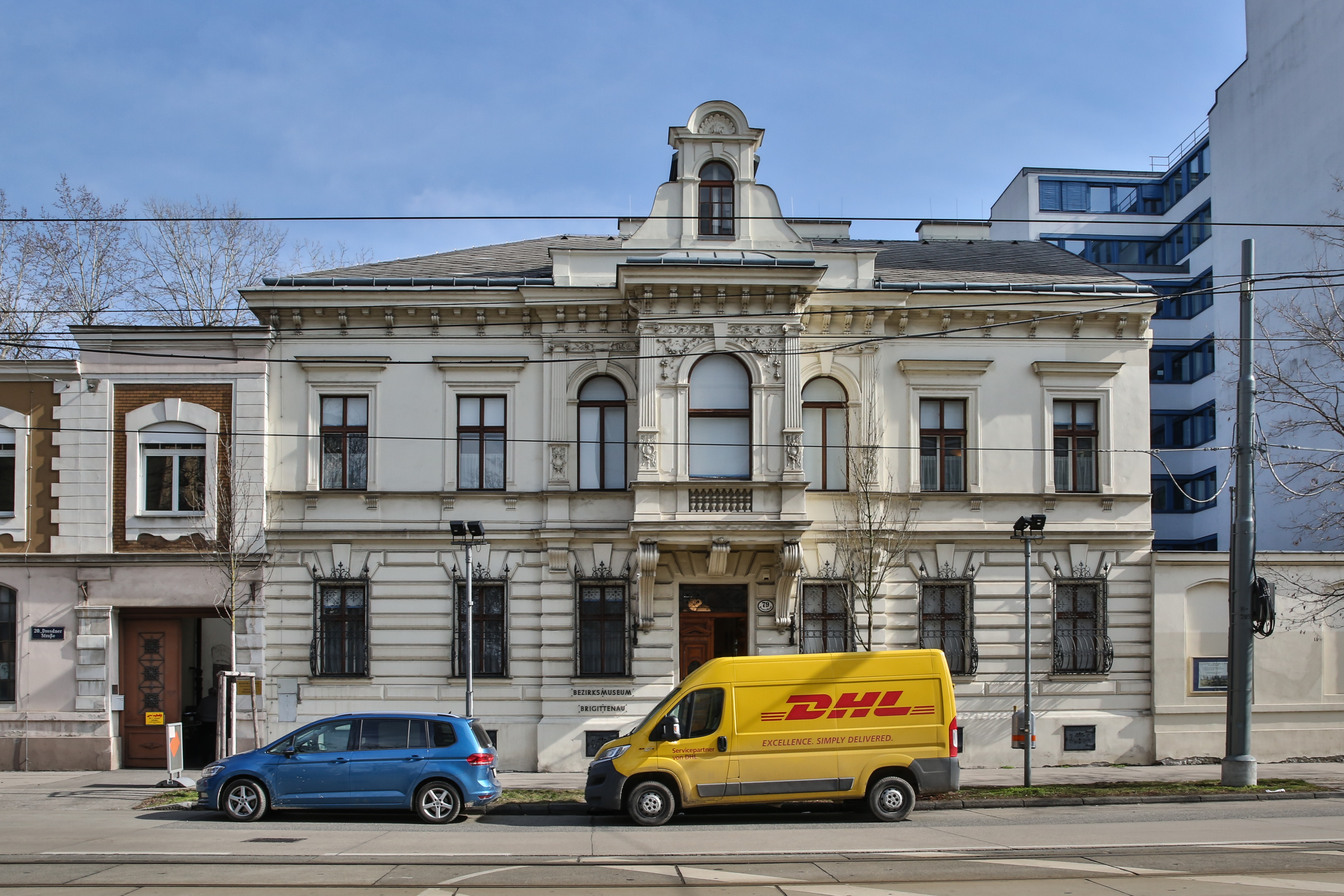 Brigittenau District Museum, Dresdner Straße 79, in Brigittenau, the XX. district of Vienna / Austria / EU. The house was built in 1889 in the style of Historism and was also the villa of the manufacturer Friedrich Bertram and is still called "Bertram-Schlössl".